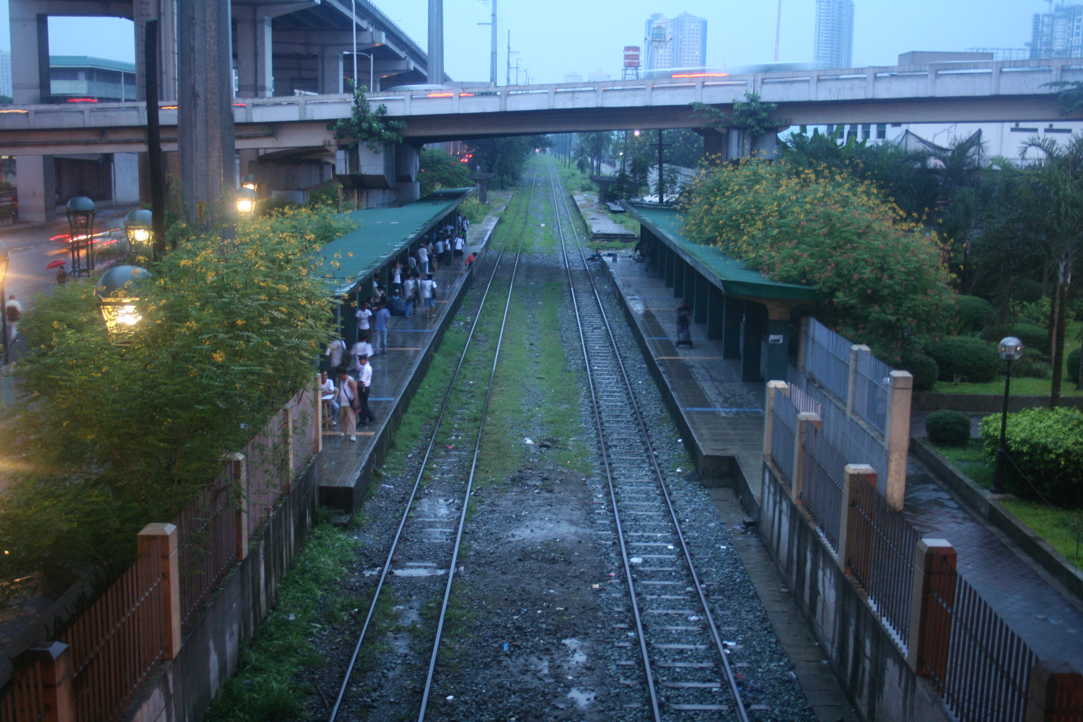 Overhead view of EDSA railway station.